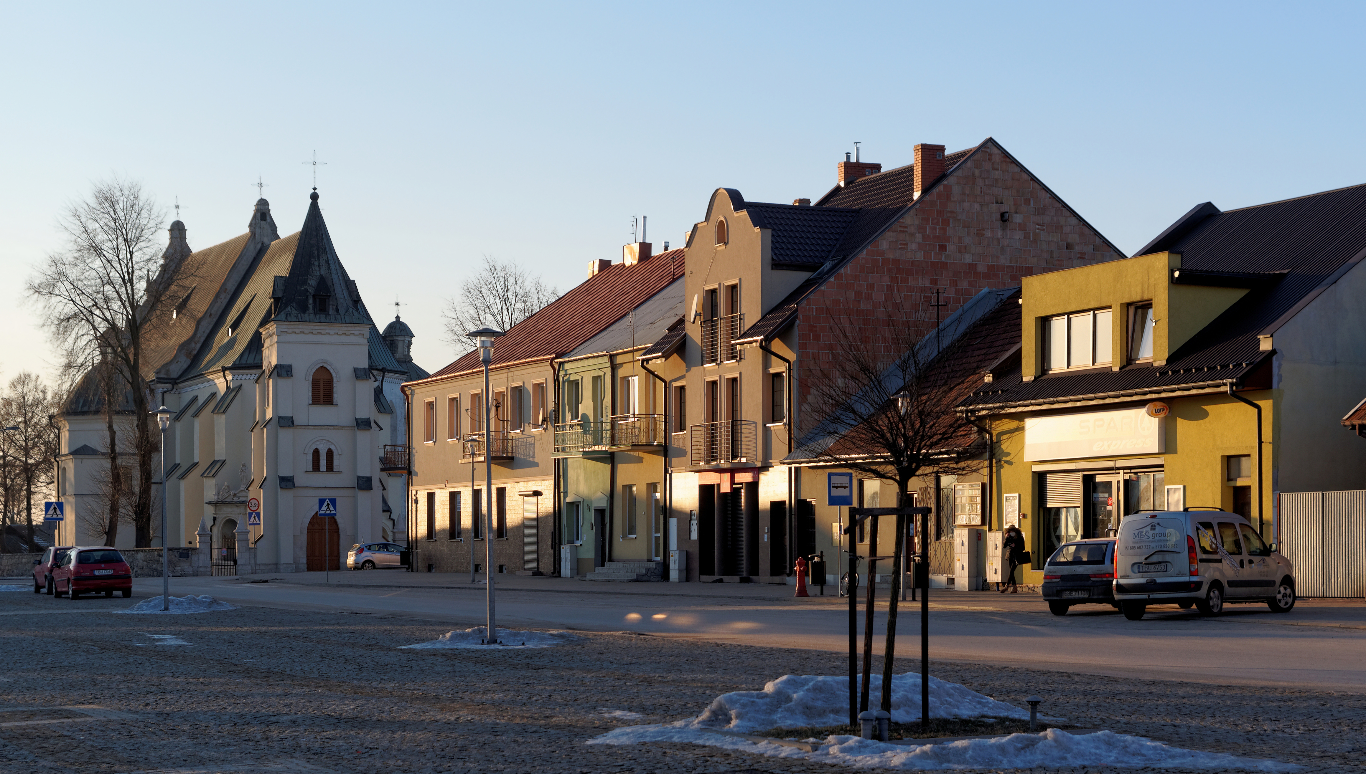 Market square in Nowy Korczyn